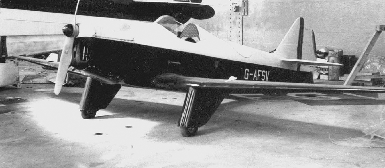 Chilton D.W.1 G-AFSV at Netheravon, Wiltshire